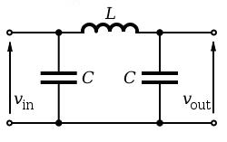 fasfa